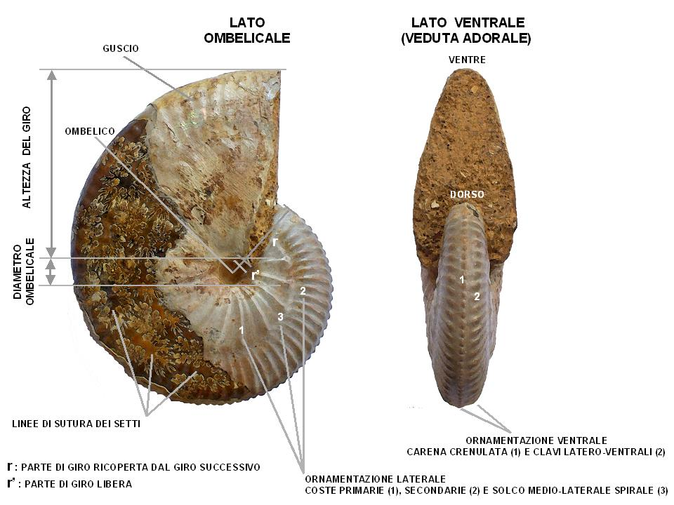 Example of ammonite morphology (Taramelliceras cf. T. callicerum). text in italian